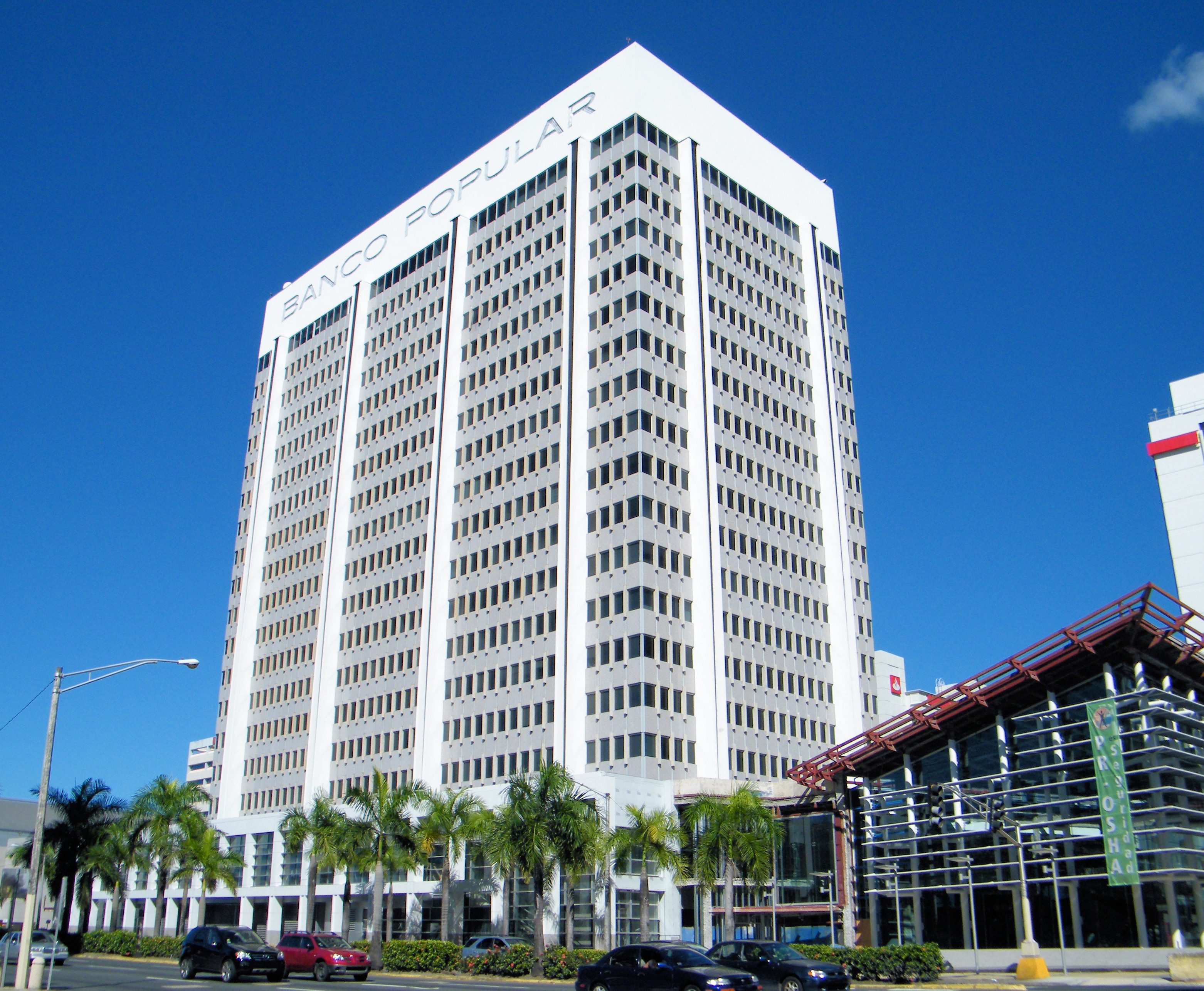 Banco Popular's headquarters at 208 Juan Ponce de León Avenue in the Golden Mile District of Hato Rey, San Juan.